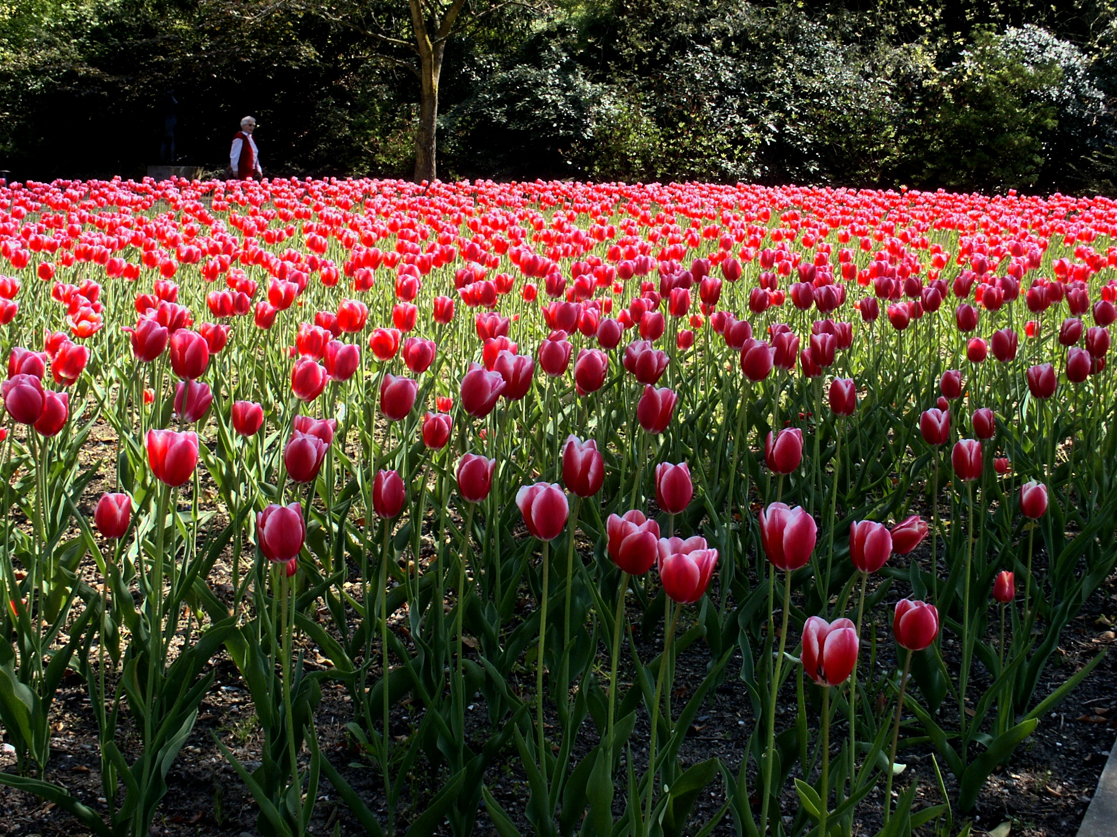 Gruga Stadt Essen Germany